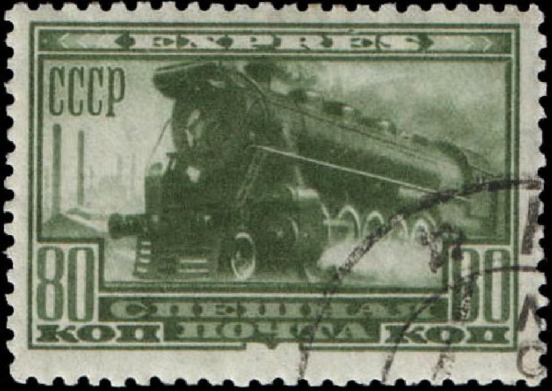 Stamp of USSR, 1932 (CPA № 389)